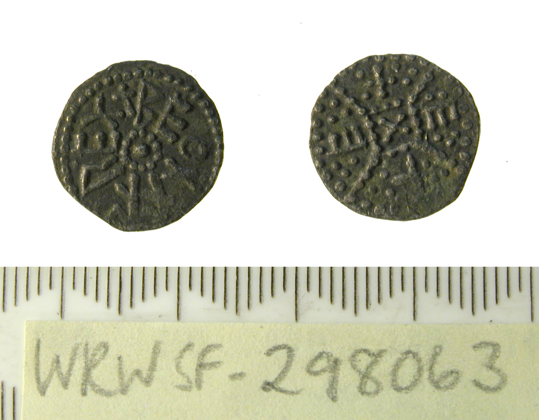 A silver sceat of King Beonna of East Anglia, circa 758 in date (Spink 1998, 76, no 945 and Metcalf 1994, vol 3, 601-609, plate 28, no 478).